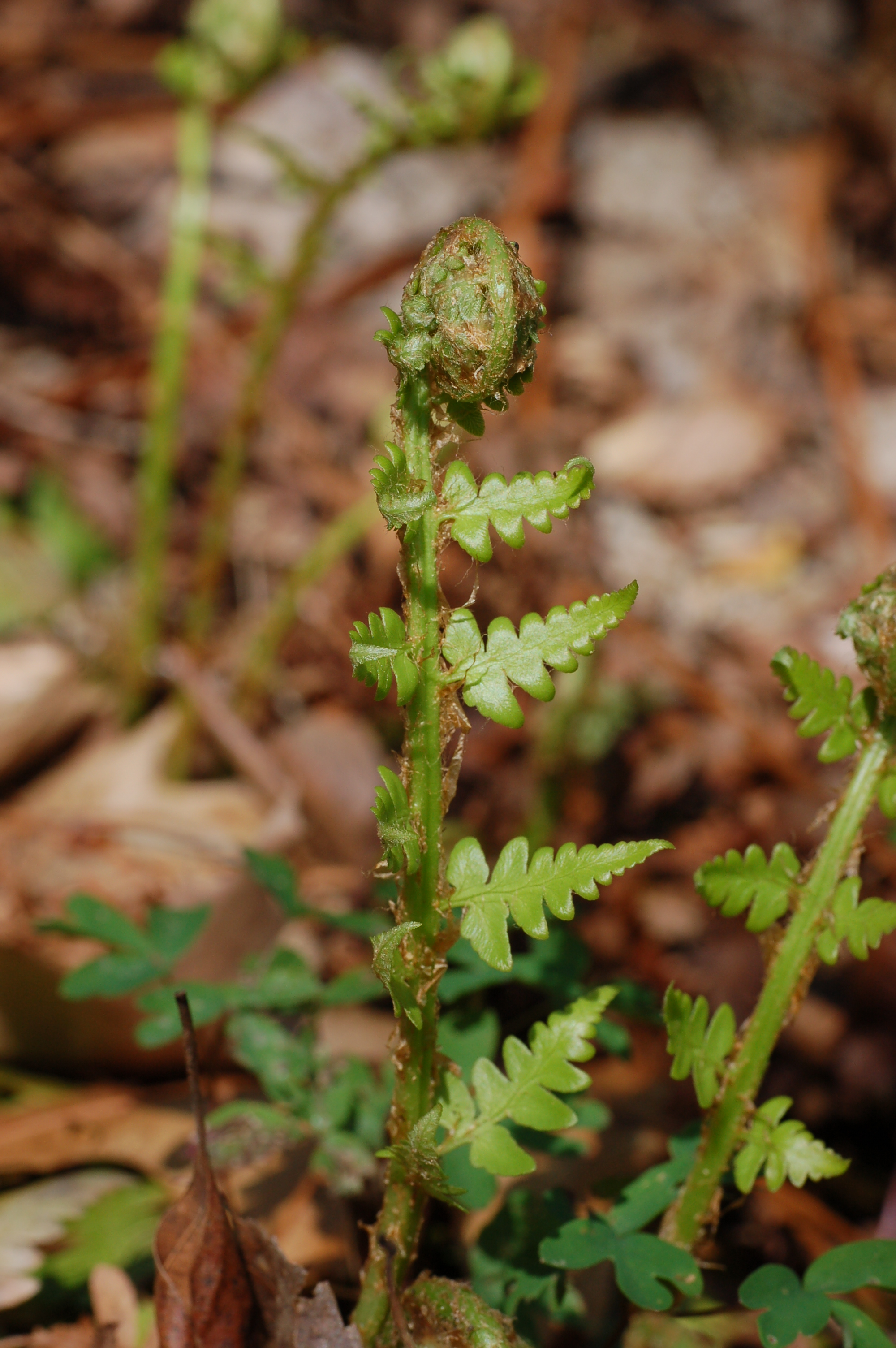 Photograph of the leaves of the Southern Wood Fernen (Dryopteris ludoviciana en ). Photo taken at the Mt. Cuba Center where it was identified.